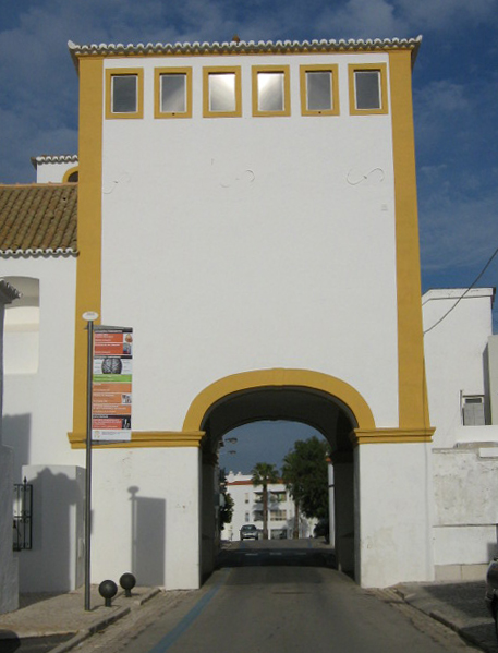 Belvedere tower over the road, part of the Convent of São José in Lagoa, Algarve, Portugal.